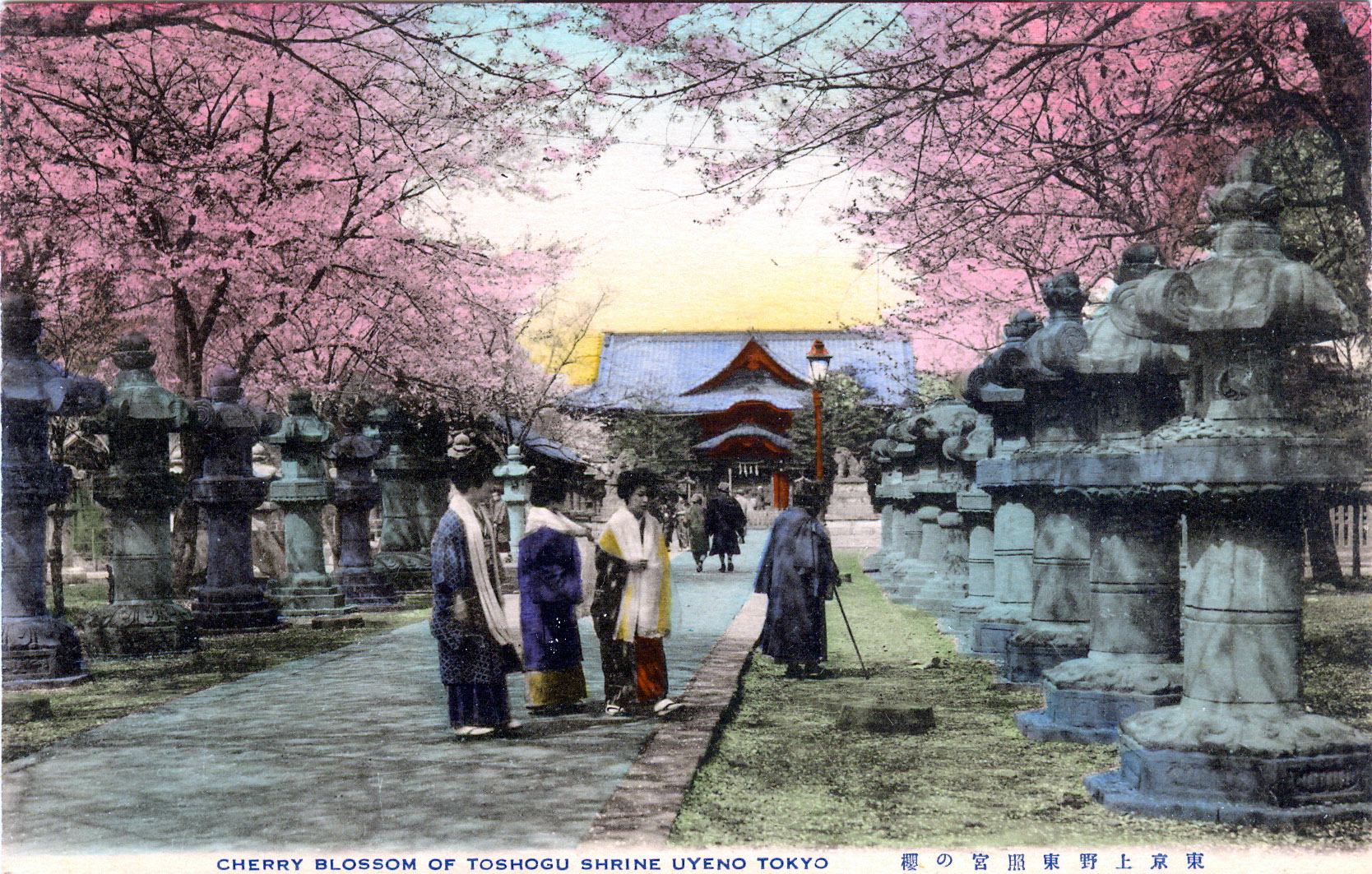 Tosho-gu Shrine ca. 1920